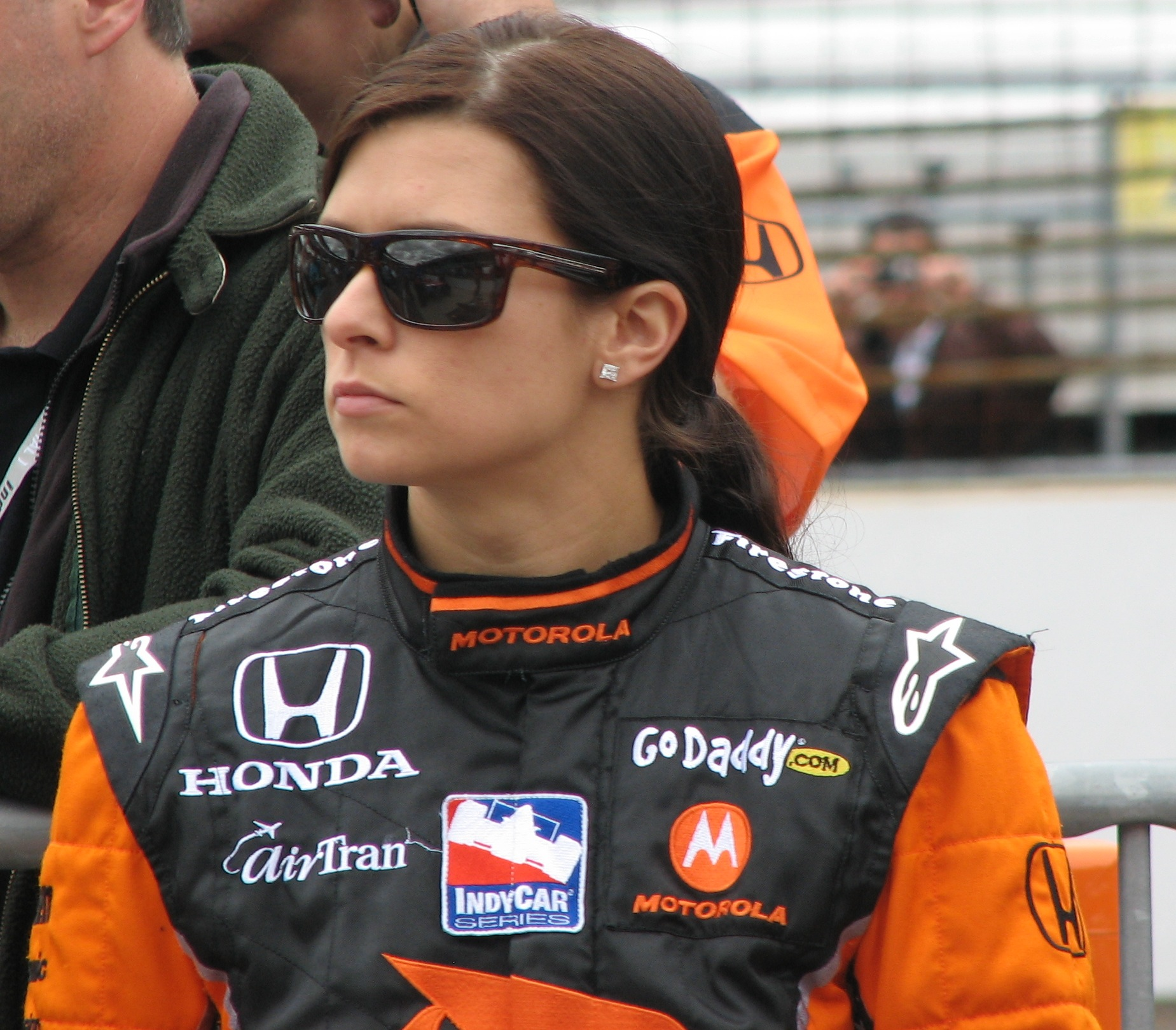 Danica Patrick at the Indianapolis Motor Speedway for Pole day qualifications for the 2009 Indianapolis 500.